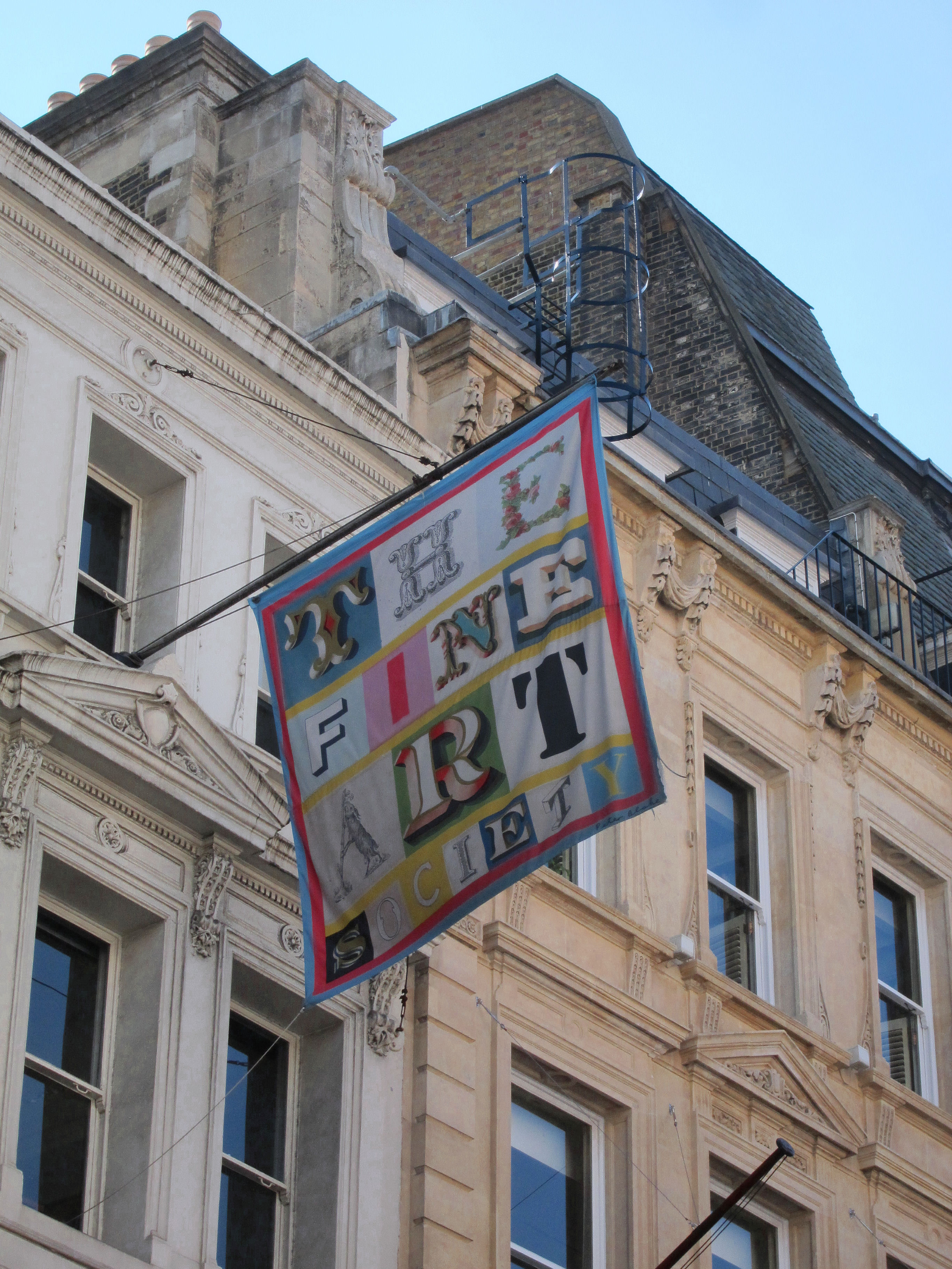 26 August 2013. For no other reason than I liked the banner. The Fine Art Society, art dealers at 148 New Bond St London W1. ________________________________ § Right-click to view or download larger versions. § Aerial view of where I took this photo.